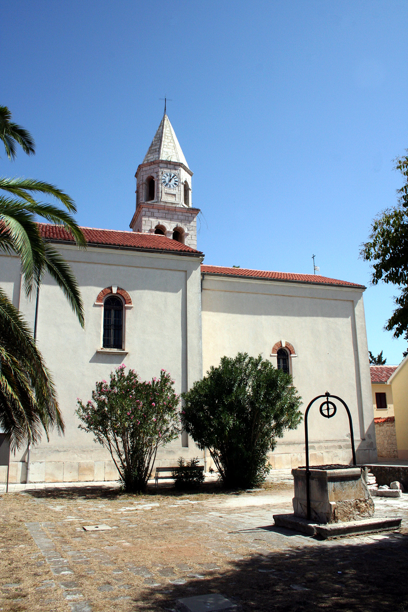 St Anastasia church (?) in Biograd, Croatia